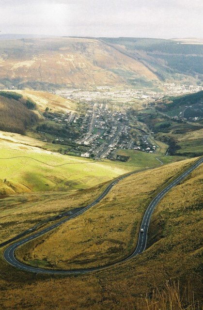 Cwmparc: zigzag on the A4061 The A4061 zigzags its way down to Cwmparc and Treorchy, viewed from the Abergwynfi road.